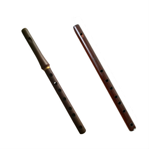 Շվիի Երկու Տեսակները